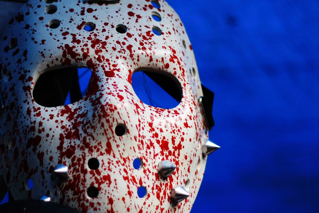 Hockey mask, Jason Voorhees